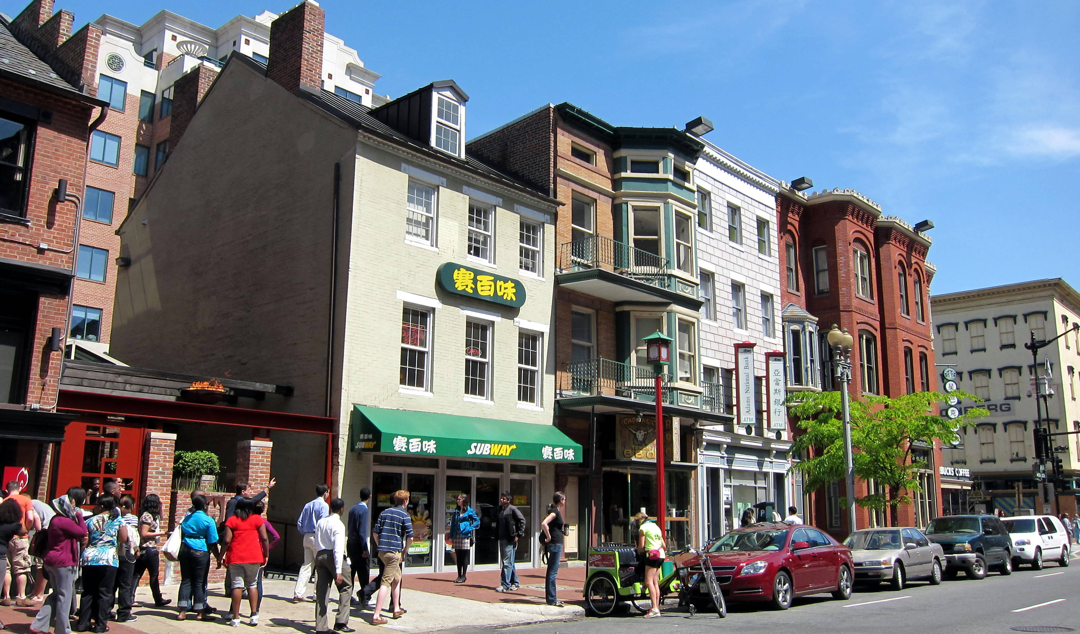 The 700 block of H Street, N.W., in the Chinatown neighborhood of Washington, D.C. Built in the late 19th-century for residential purposes, the commercial buildings are designated as contributing properties to the Downtown Historic District, listed on the National Register of Historic Places in 2001.